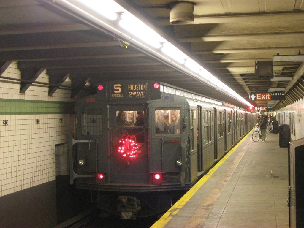 NYC Subway R6 #1000 at the 23rd Street station in special 2009 holiday service.